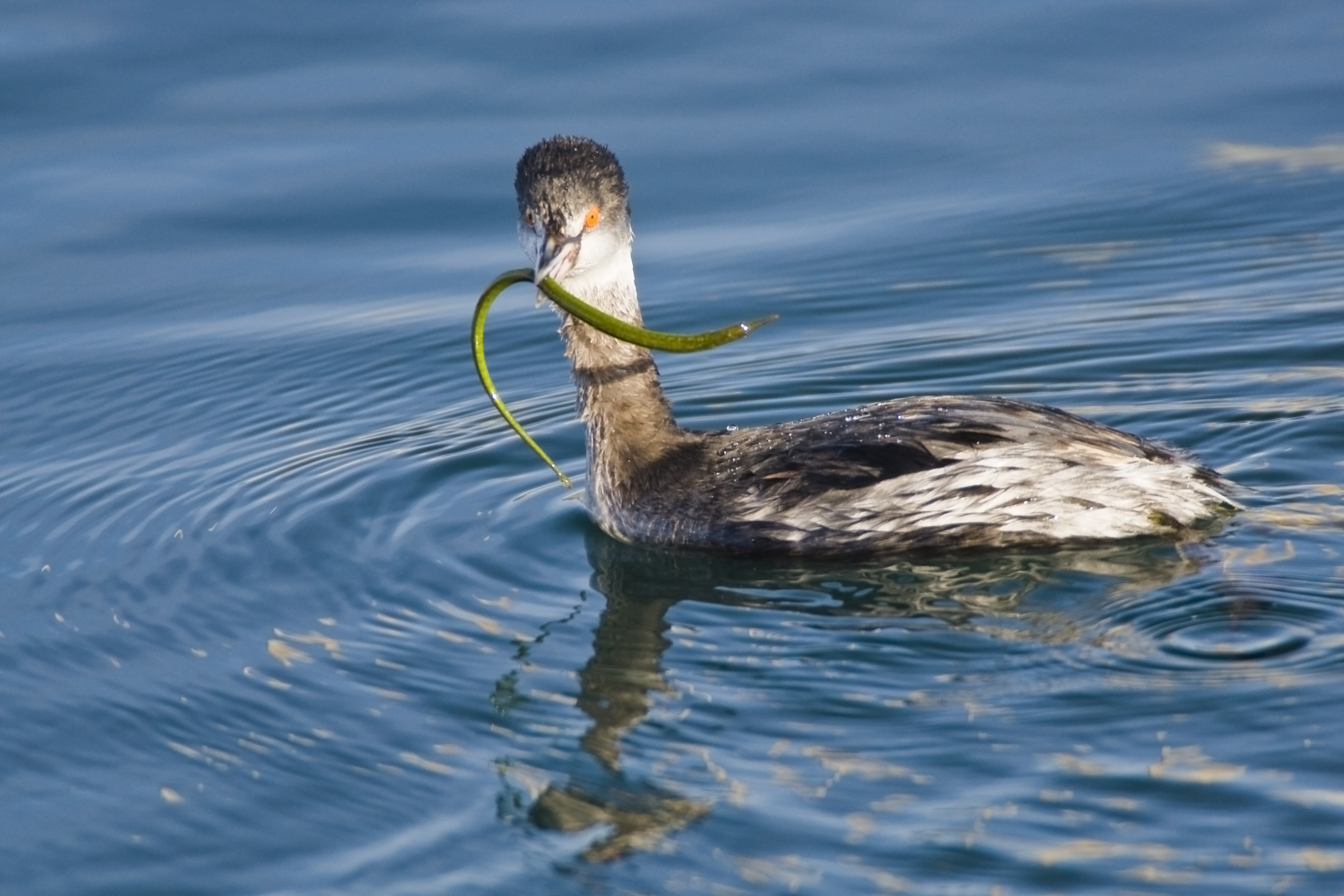 Podiceps nigricollis captures and swallows a a large cold-water pipefish Syngnathus leptorhynchus, in Morro Bay, CA 14 Dec 2007 - set of 4 images keywords: Podiceps nigricollis 14dec2007 Syngnathus leptorhynchus "1D Mark III" 600mm Bird California fish "high ISO" mikebaird "Morro Bay" "Morro Rock" polarizer telephoto CA USA Pipefish “high ISO” ISO800 “Morro Bay” “Morro Rock” 14dec2007 Friday 14 Dec. 2007 - Photo by Mike Baird, Canon 1D Mark III with 600mm IS lens w/ 2X II TE and polarizer, on tripod – UPDATE 16dec2007 the prey here may be a large cold water Pipefish Syngnathus leptorhynchus - see Thanks to Ken Bondy ken at kenbondy dot com for help on the fish ID. UPDATE 15dec2007 lightened image replaces darker version published 13dec2007